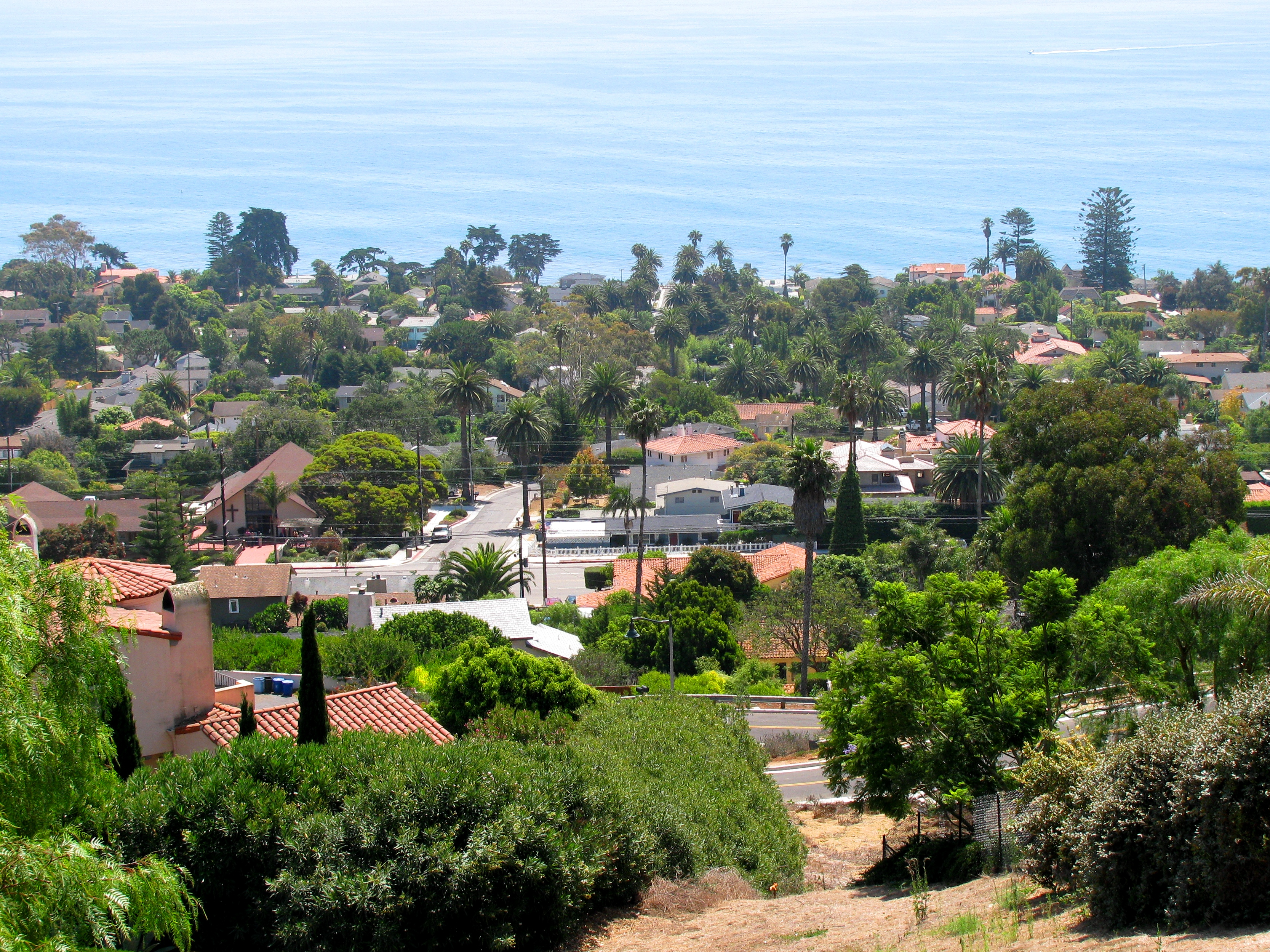 Mesa Oil Field: the present-day neighborhood where the derricks stood through the 1930s. Photo by self, GFDL/equiv.